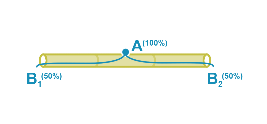 Simple schematic of a reed level